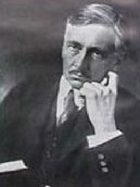 Portrait of Sir Frederic Truby King, founder of Plunket Society.